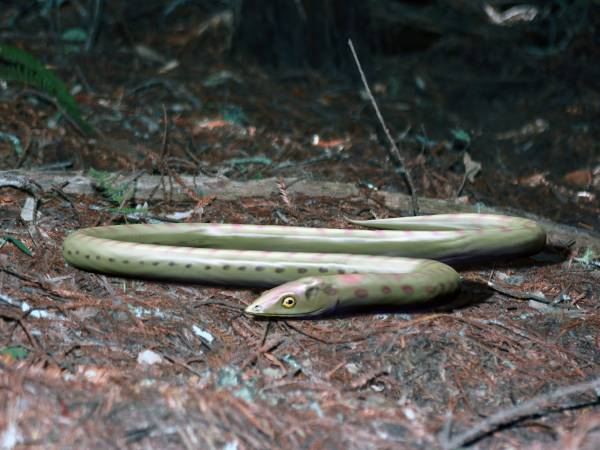 Life reconstruction of Phlegethontia longissima